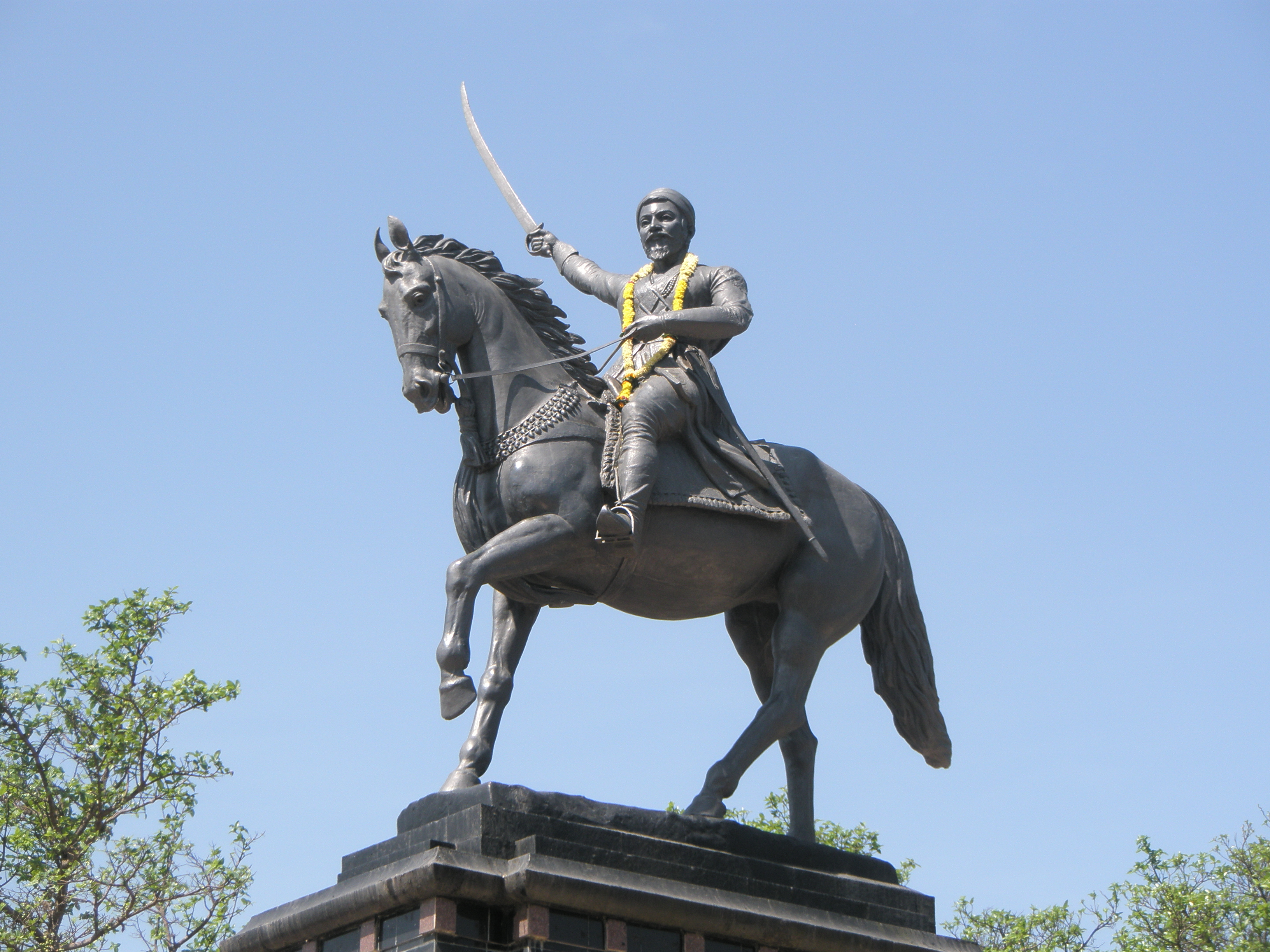 Pic was taken during my Vacation